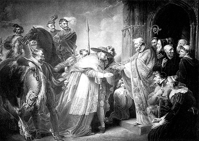 Robert Thew's original stipple engraving King Henry the Eighth: Act Four, Scene Two, (Abbey of Leicester -- Wolsey, Northumberland & Attendants, Abbot of Leicester, Etc.) is based upon a design created by Richard Westall for John Boydell's "Shakespeare Gallery".